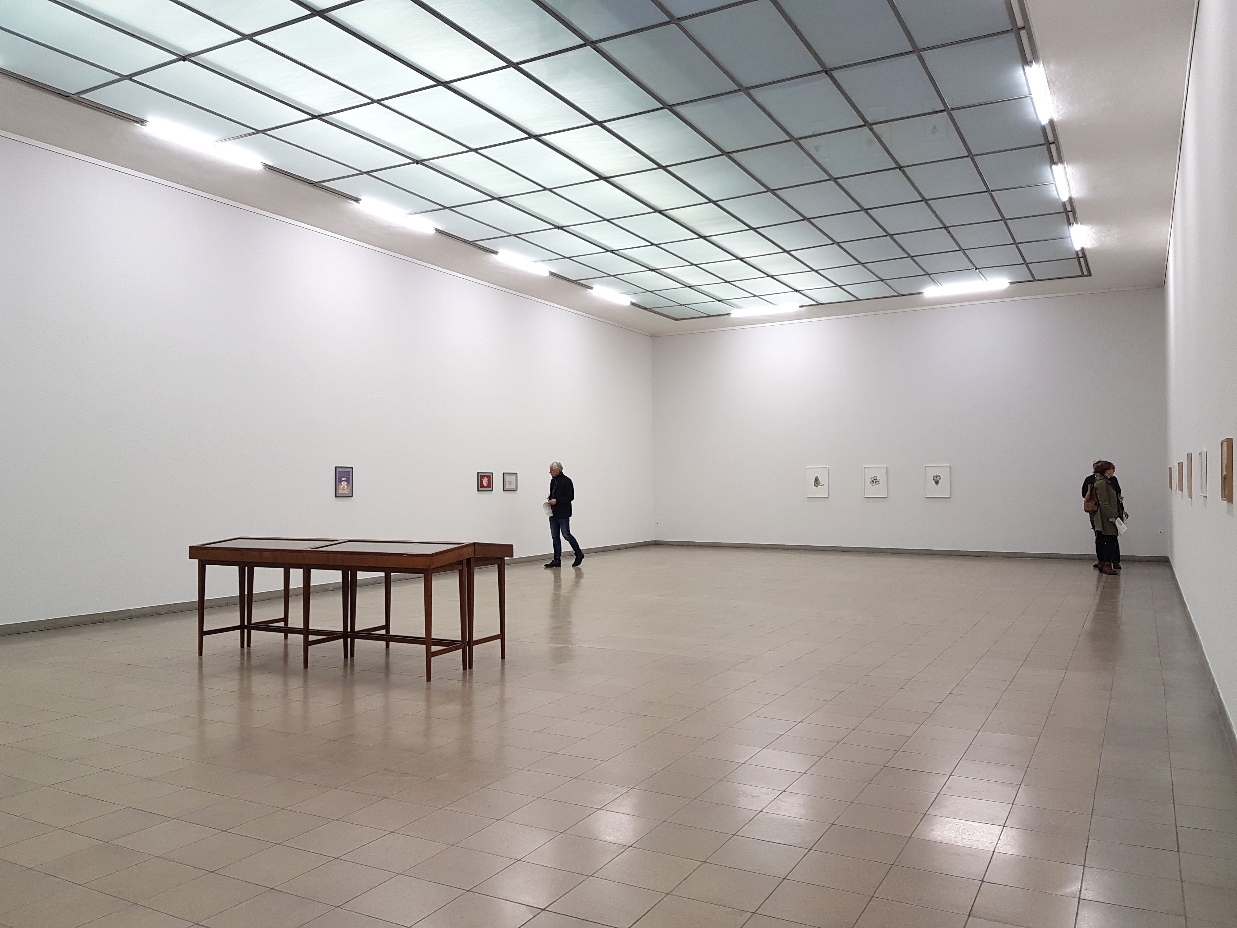 Kunsthaus Glarus, OG (1. Stock), Oberlichtsaal, abends